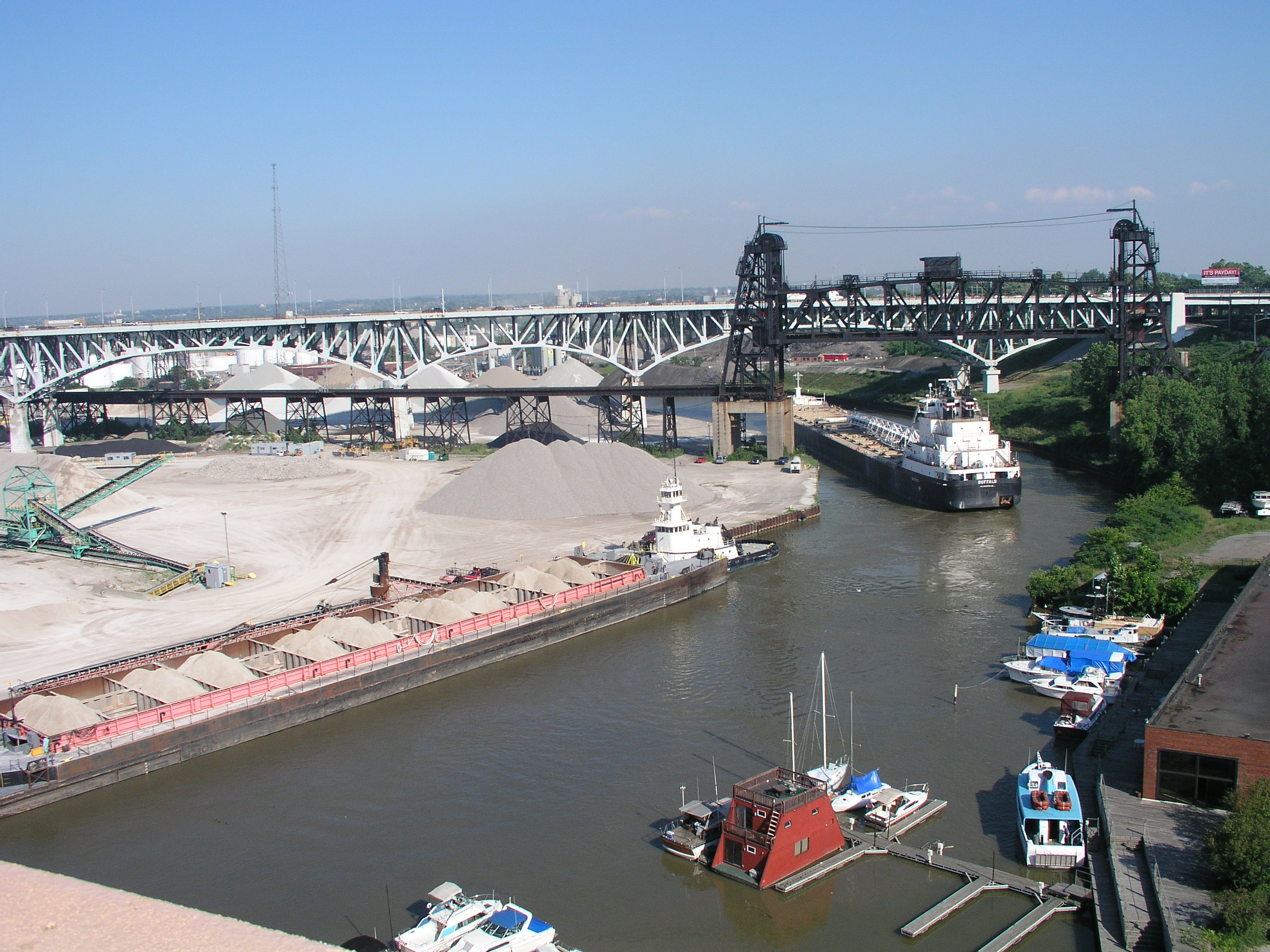 Cuyahoga river near downdown Cleveland. White brige is I-90. Aug/2005